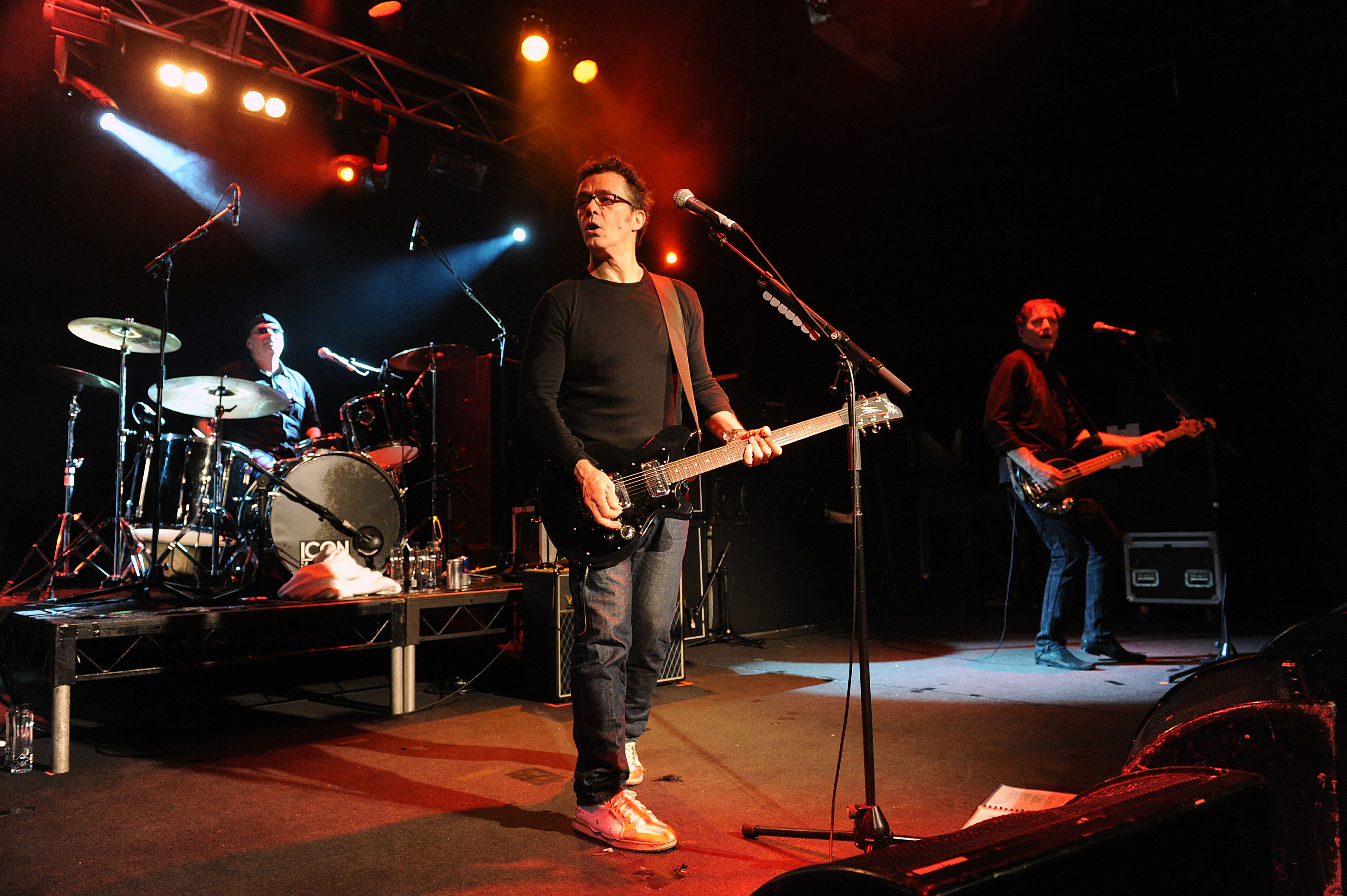 Taken by me in SYDNEY 2010